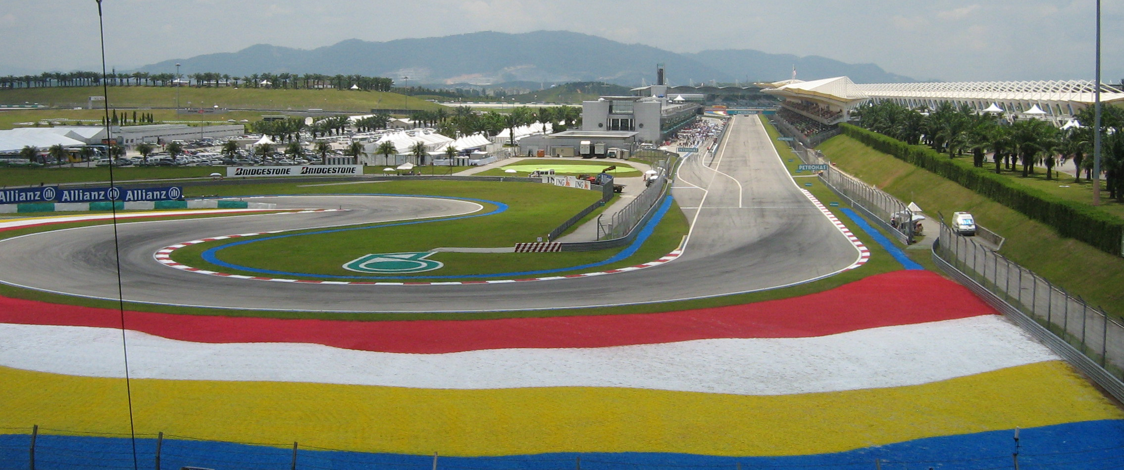 formula 1, sepang international circuit, malaysia